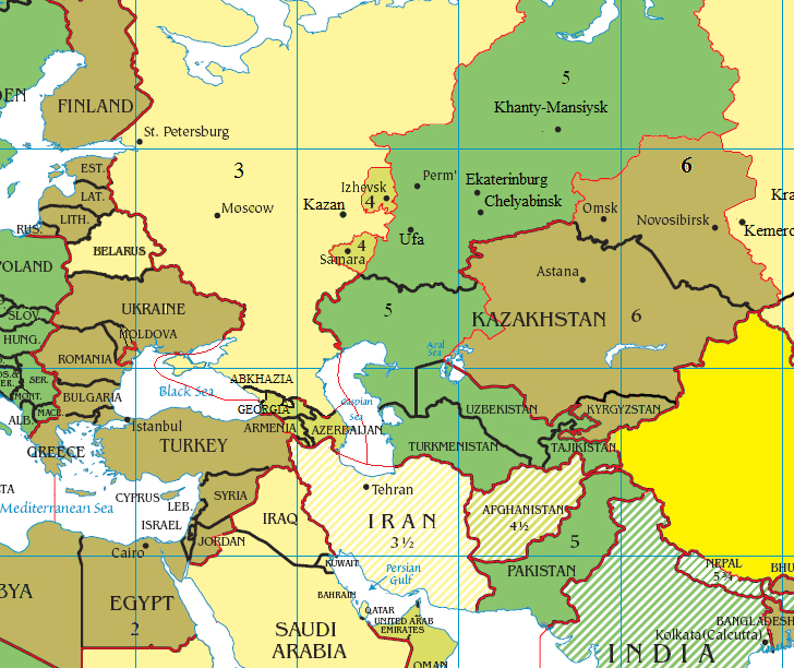 PST in relation to surrounding region